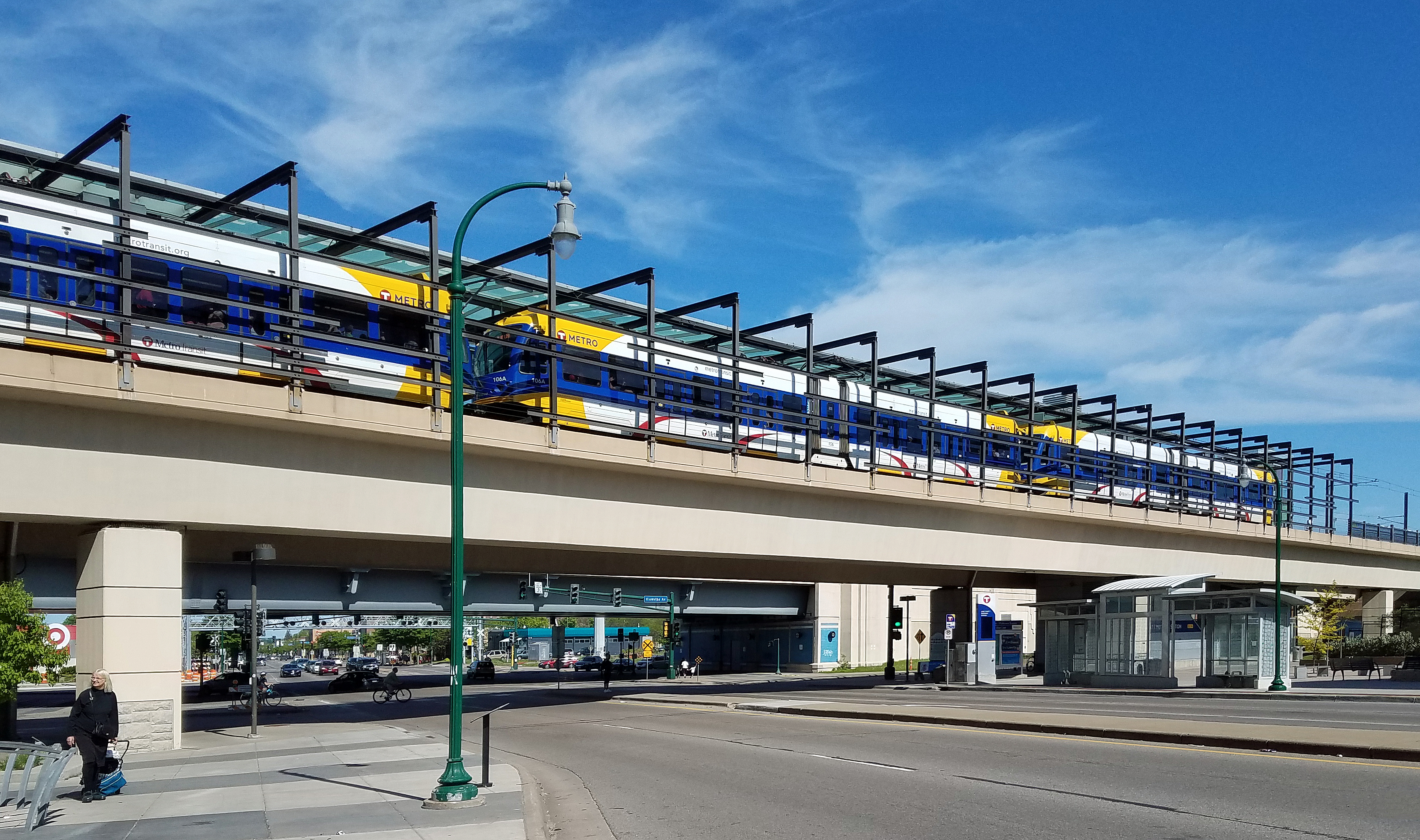 Lake St/Midtown light rail station, Minneapolis, Minnesota, USA. Viewed from the west.